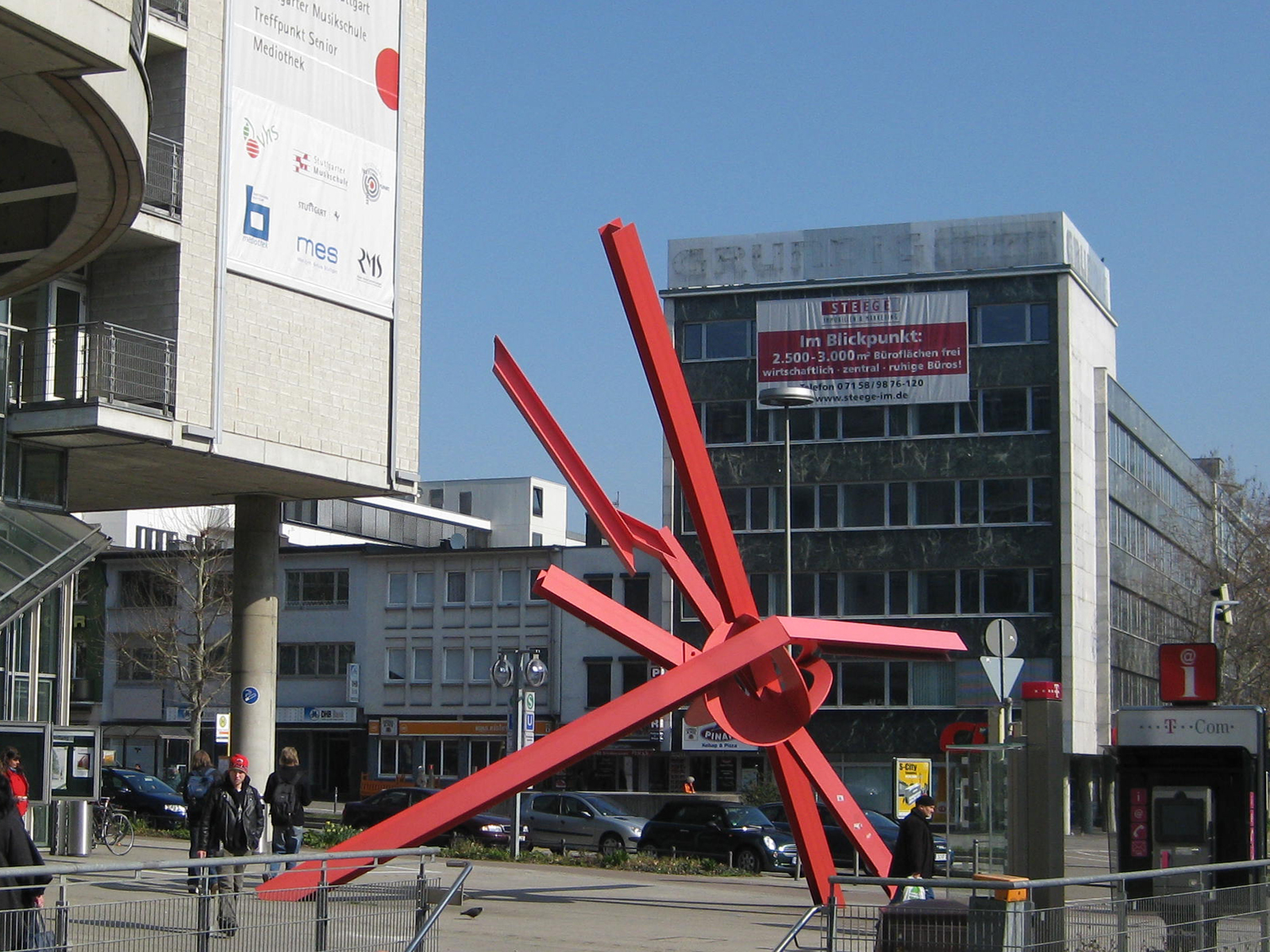 Sculptures in Stuttgart, Mark di Suvero, Lobotchevsky, 1987/88